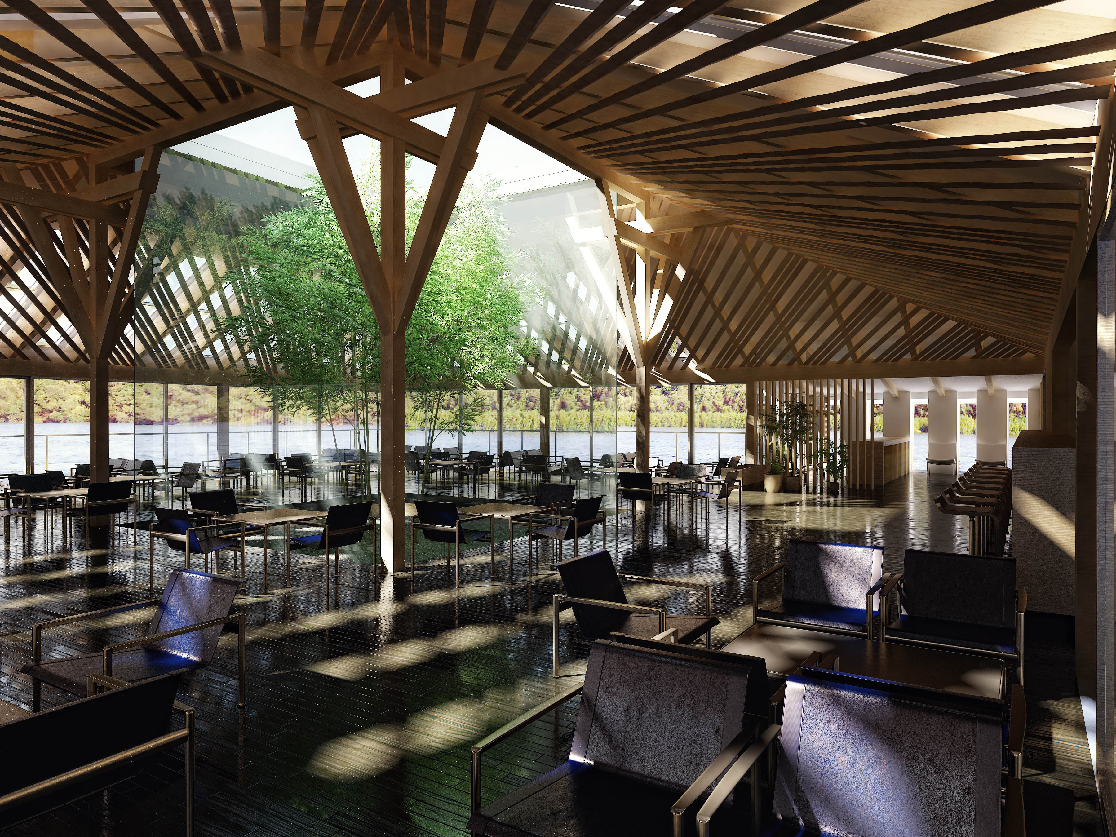 Djordje Alfirevic - Raft Restaurant 4U